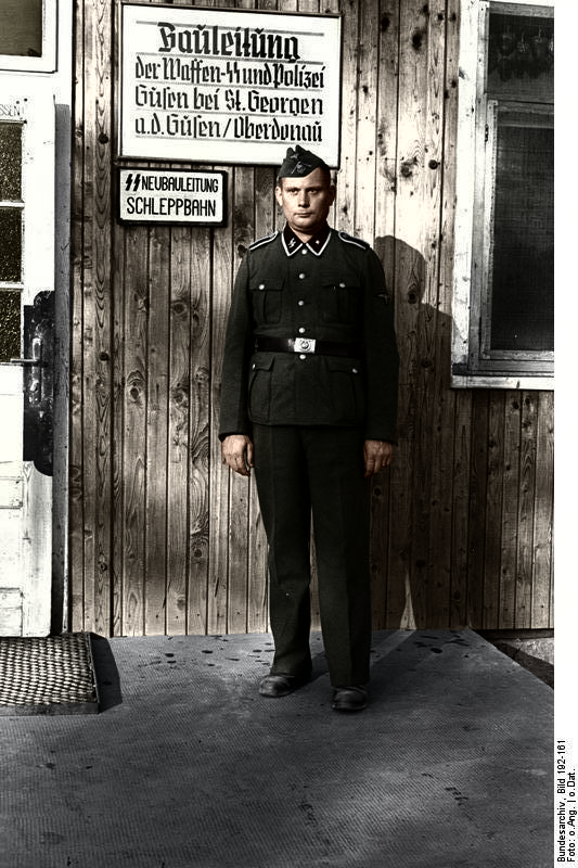 This is a retouched picture, which means that it has been digitally altered from its original version. Modifications: recolored. The original can be viewed here: Bundesarchiv Bild 192-161, KZ Mauthausen, SS-Mann vor Bauleitungsbaracke.jpg: . Modifications made by Ruffneck88. KZ Mauthausen-Gusen, KL Gusen I, SS-Mann vor Bauleitungsbaracke Photographer Unknown authorArchive description Description provided by the archive when the original description is incomplete or wrong. You can help by reporting errors and typos at Commons:Bundesarchiv/Error reports. Österreich.- Konzentrationslager Mauthausen-Gusen, SS-Mann vor der Bauleitungsbaracke in GusenTitle KZ Mauthausen-Gusen, KL Gusen I, SS-Mann vor Bauleitungsbaracke Depicted place KZ MauthausenDate after 1941 date QS:P571,+1941-00-00T00:00:00Z/7,P1319,+1941-00-00T00:00:00Z/9Collection German Federal Archives Native nameDas BundesarchivLocationKoblenz (headquarters)Coordinates50° 20′ 32.71″ N, 7° 34′ 21.22″ E Established1946Web page control : Q685753 VIAF: 137346469 ISNI: 0000 0004 0555 2728 LCCN: n92025526 NLA: 36455393 Open Library: OL55798A WorldCat institution QS:P195,Q685753Current location Sammlung KZ Mauthausen (Bild 192)Accession number Bild 192-161 Source This image was provided to Wikimedia Commons by the German Federal Archive (Deutsches Bundesarchiv) as part of a cooperation project. The German Federal Archive guarantees an authentic representation only using the originals (negative and/or positive), resp. the digitalization of the originals as provided by the Digital Image Archive.